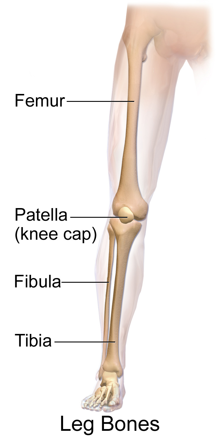 Leg Bones. See a full animation of this medical topic.